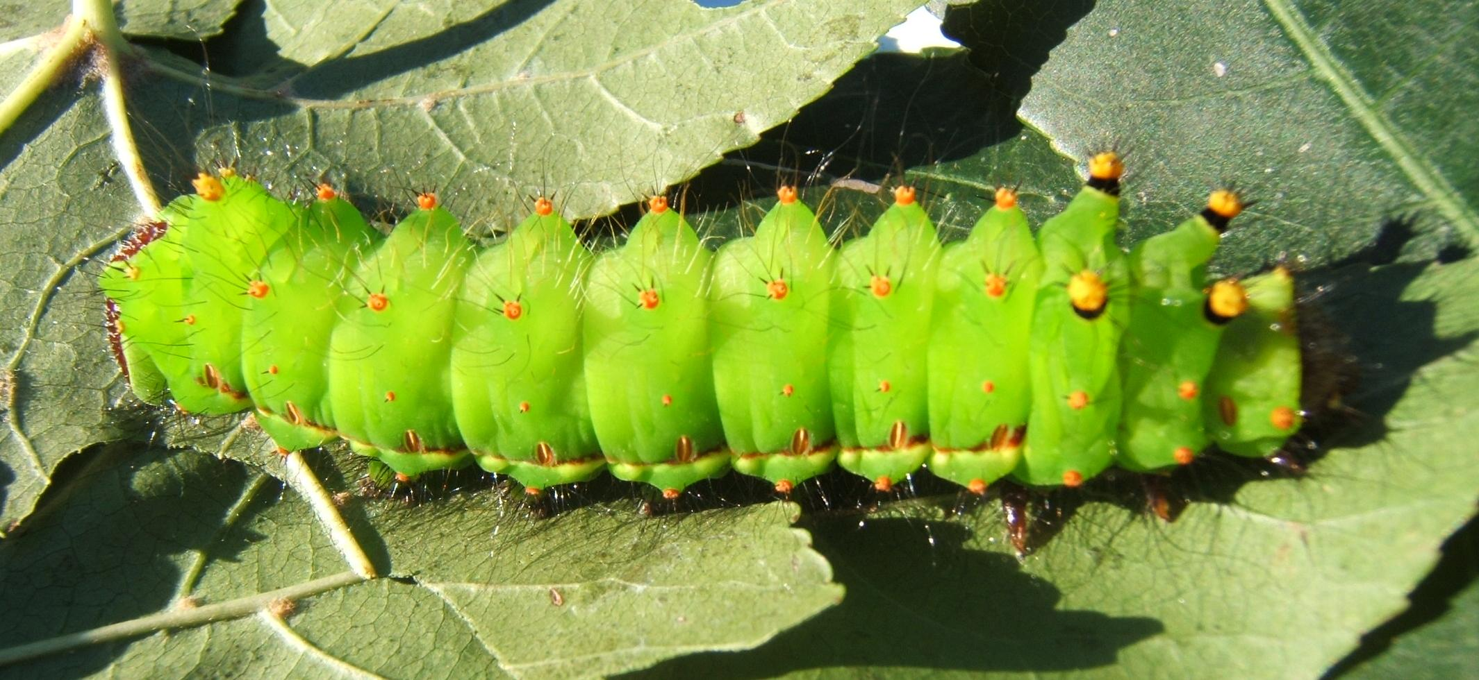 Actias selene 5th instar reared on American Sweetgum. Taken and raised by Shawn Hanrahan.